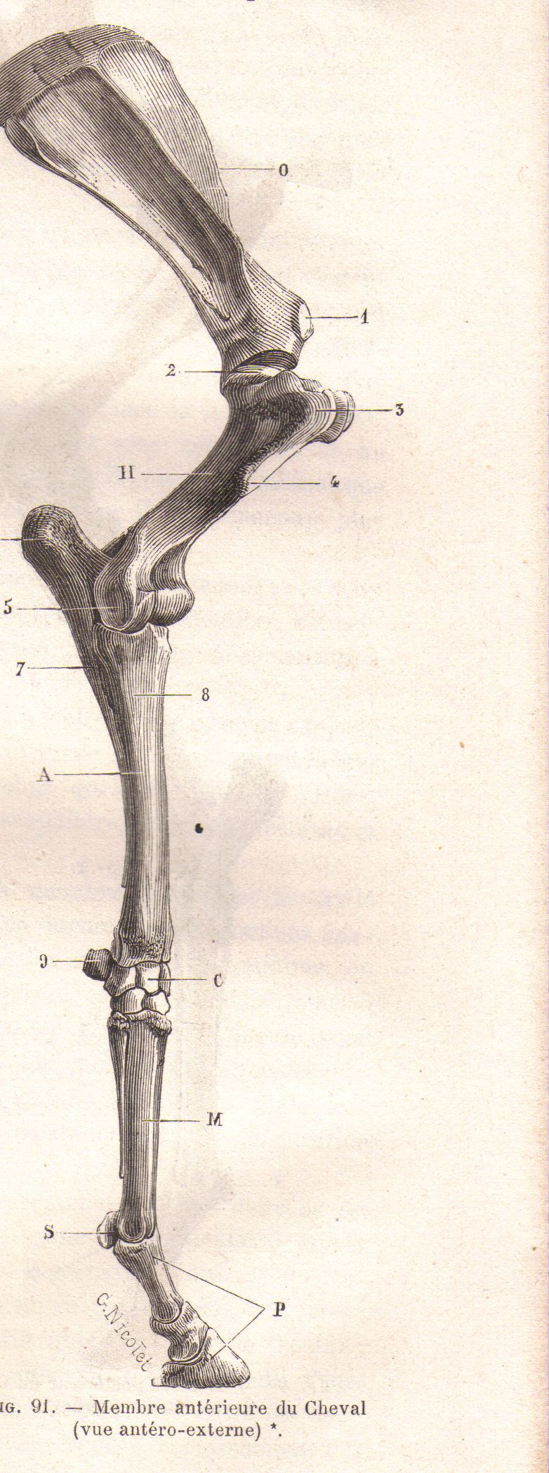 Antero-external view of the anterior limb of a horse (Equus caballus).